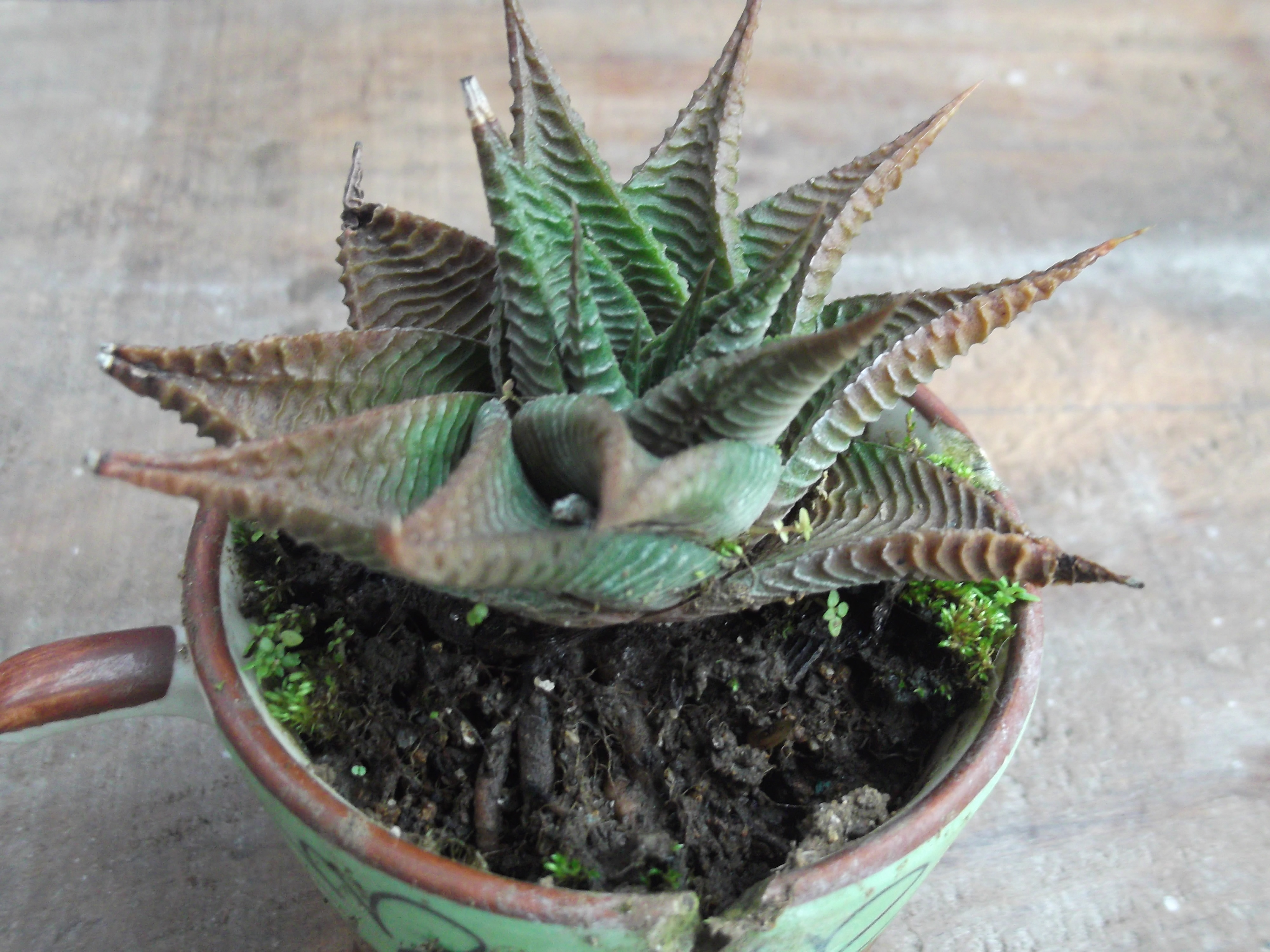 Very attractive.